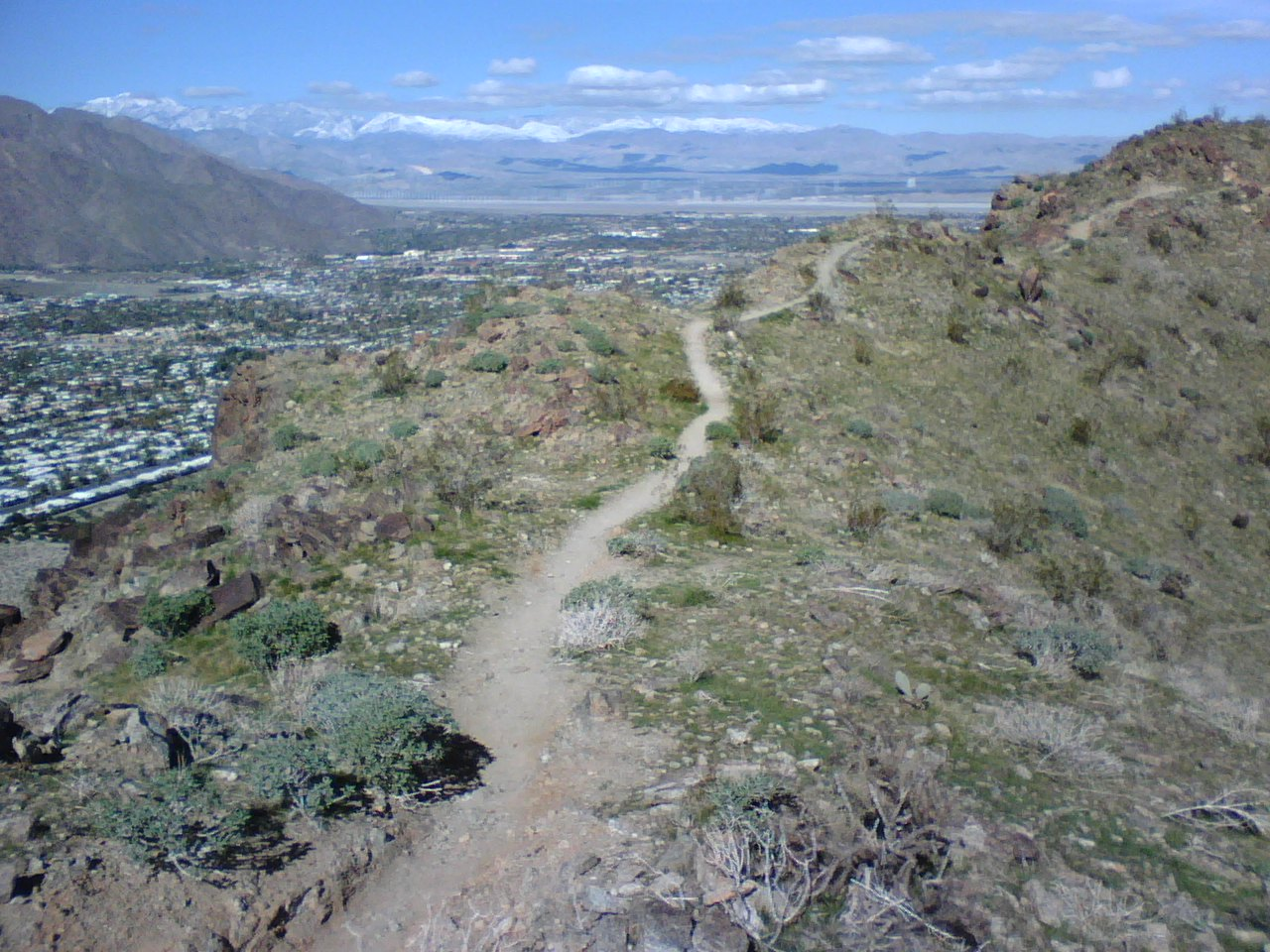 Palm Springs in the middle distance. Mt. San Gorgonio with fresh snow in the distance.